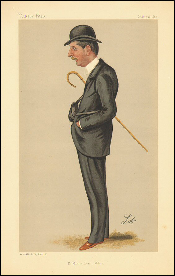 Men of the Day No.0486: Caricature of Mr Marcus Henry Milner. Caption reads: "Mr Marcus Henry Milner"